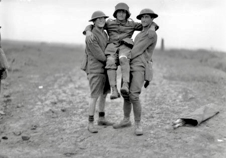 IWM caption : "Two Australians assist a prisoner, who was severely wounded in the leg, near Anzac Ridge, whilst making his way into our lines, after being passed by the attacking Australian troops in the battle of 4 October 1917, at Broodseinde Ridge, in the Ypres Sector. The Australian soldiers are (left to right) : 28401 Gunner C S Mathias 22124 Bombardier T R Lennox both are members of the 111th Horse Battery, 11th Field Artillery Brigade." Comment : the Australians were with the 4th Division Artillery.